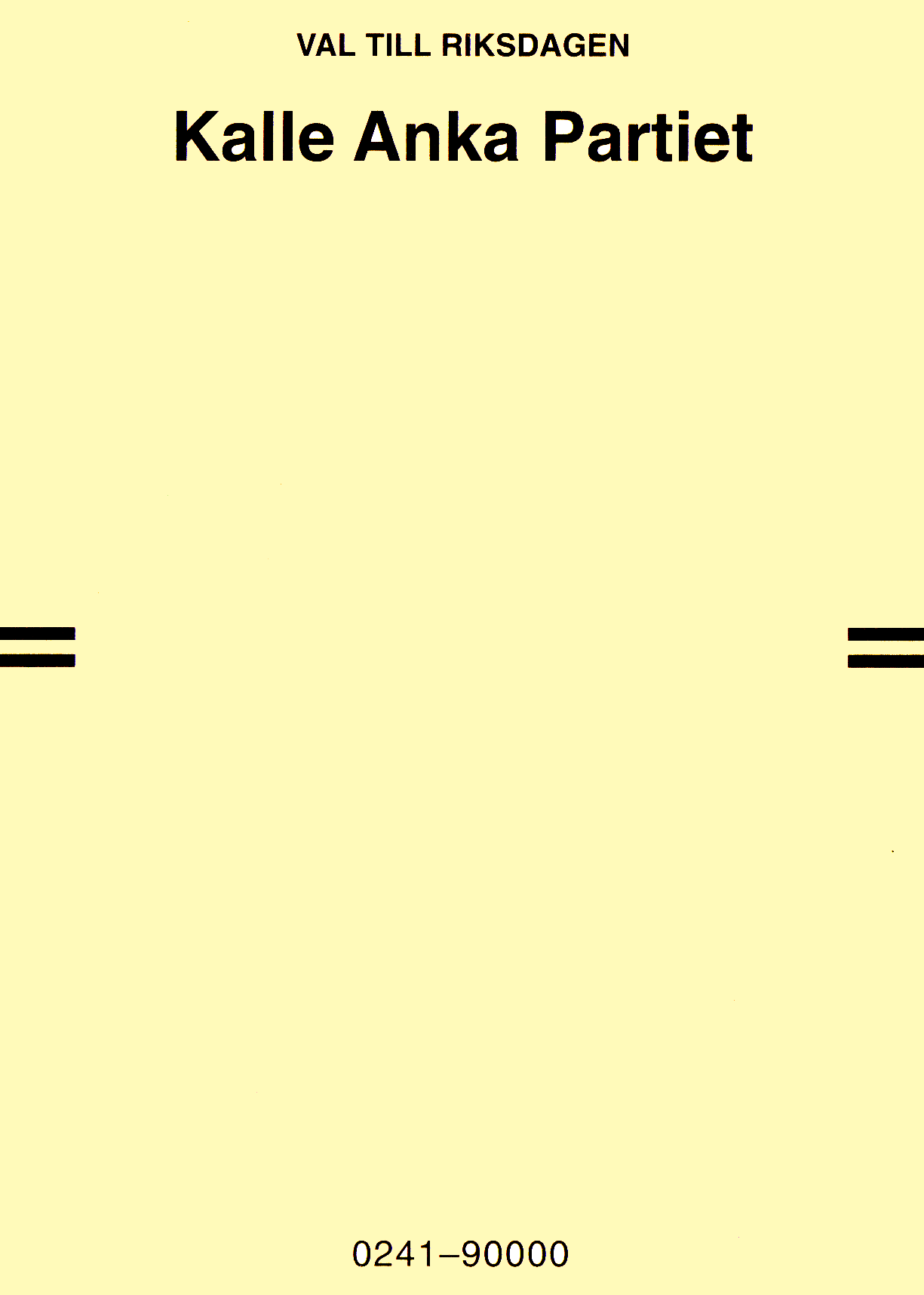 Voting slip for "Kalle Anka partiet" for the elections to the Swedish parliament.